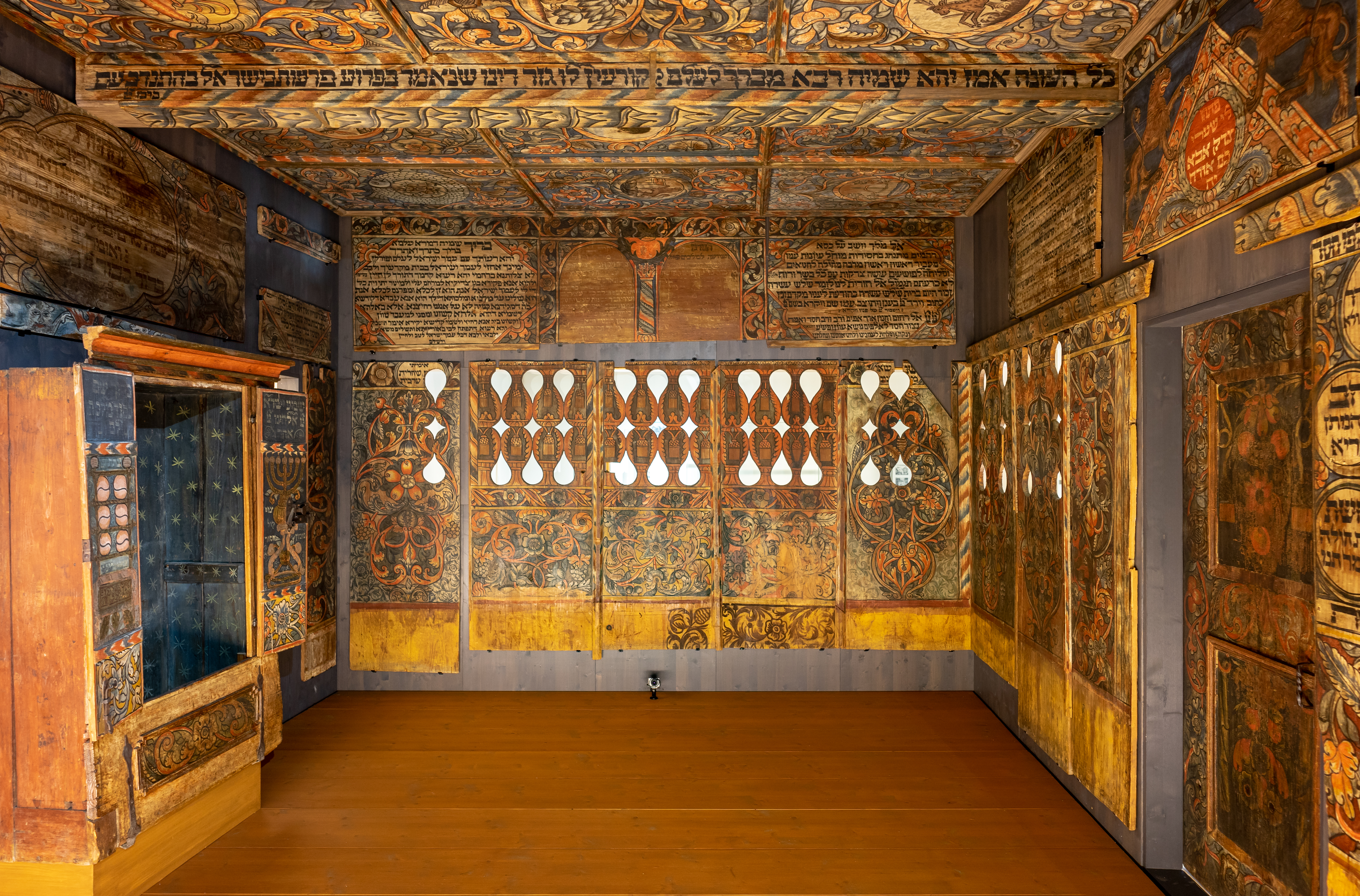 Exhibit in the Hällisch-Fränkisches Museum in Schwäbisch Hall, Germany: The richly ornated panelling of the former synagogue in Unterlimpurg, painted by Eliezer Sussmann in the 18th century. At the left the former shrine for the Torah rolls.Sorry for the imperfect image quality, but I had to take the photos without using a tripod etc., hence some compromises were necessary.